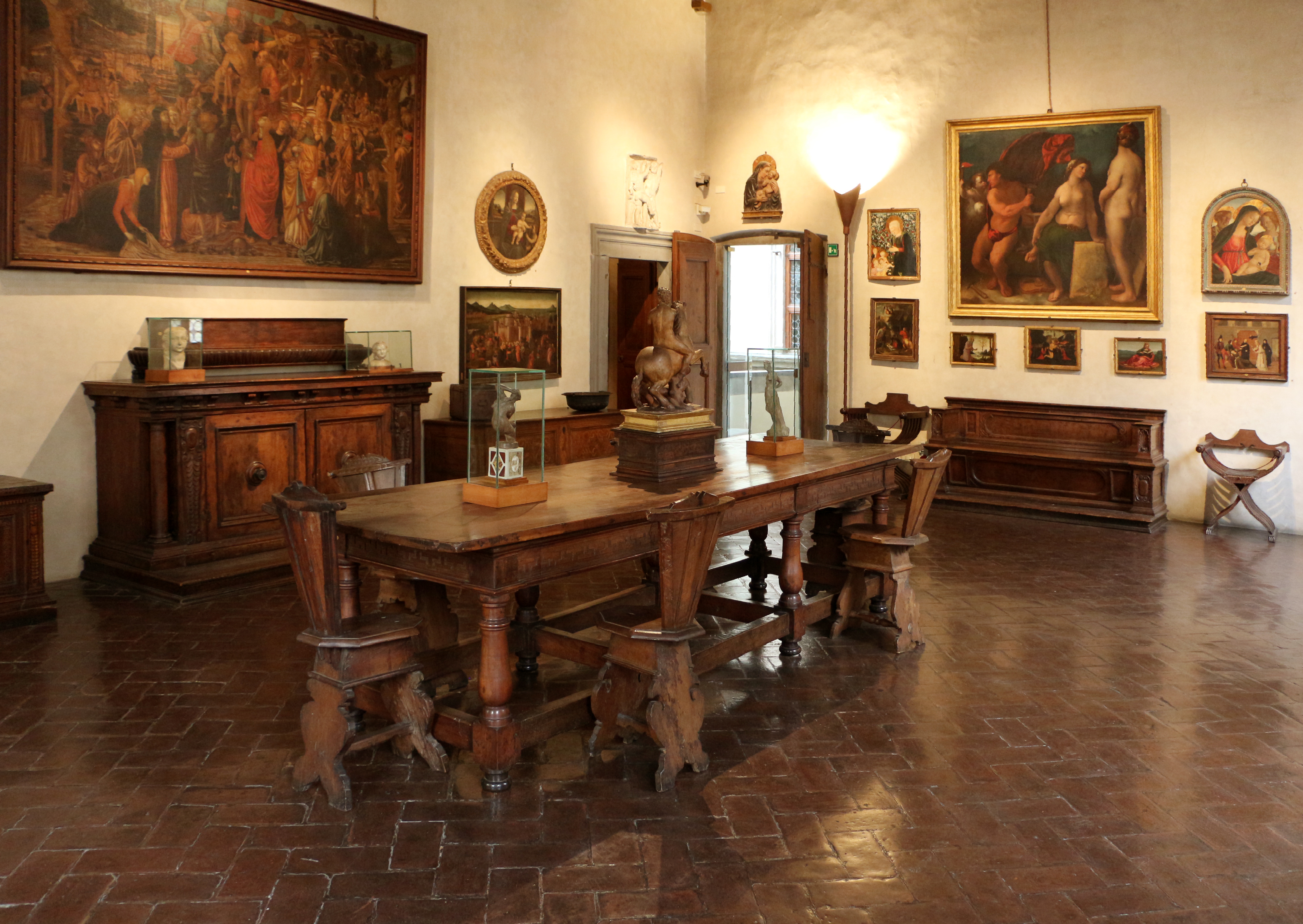 Museo Horne, Florence